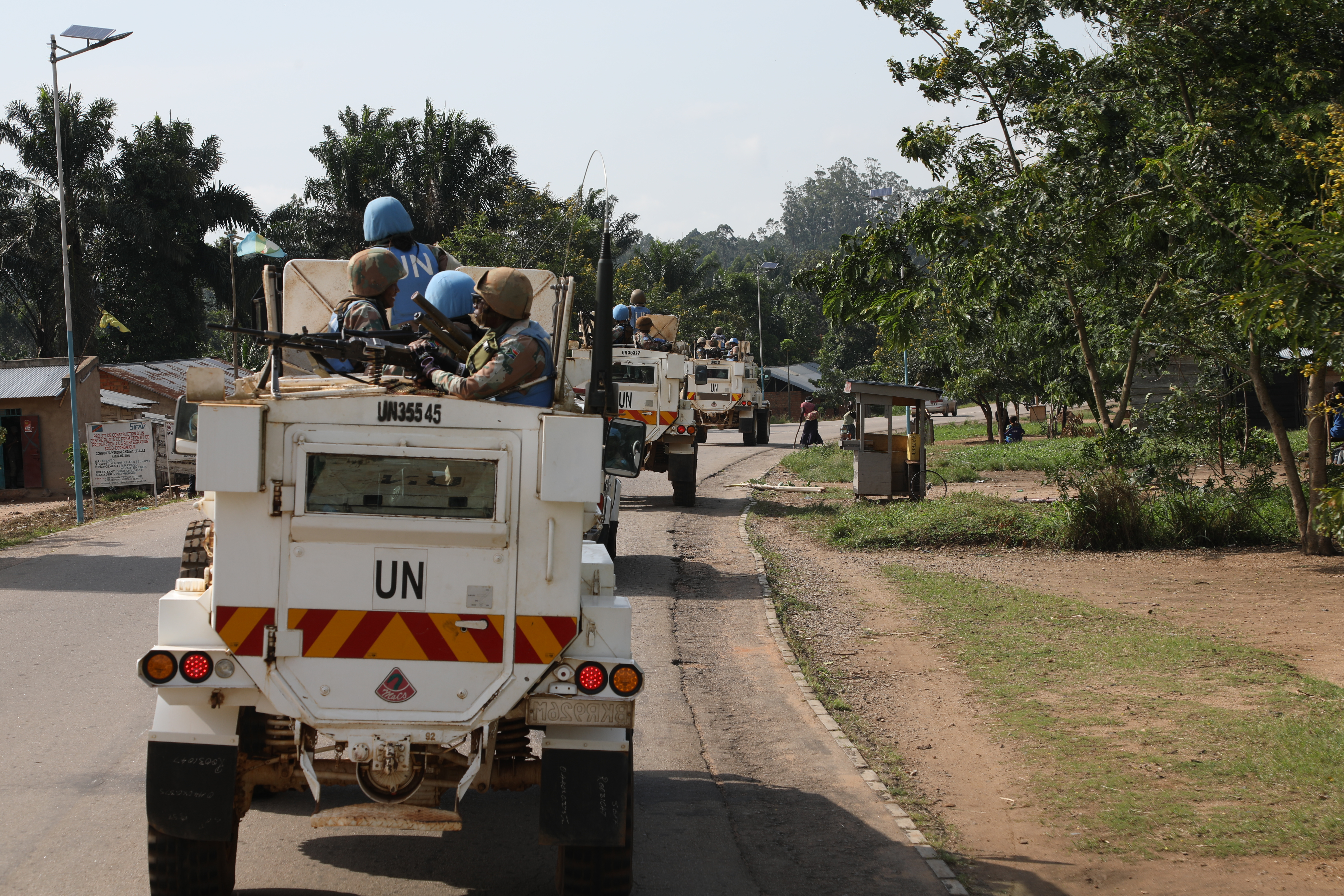 Female engagement patrol conducted from Mavivi to Muzambayi in Beni by Female combatants of South African Contingent of COB Mavivi, MONUSCO on 07 March 2018. The task was to conduct visibility patrol using vehicles and on foot, in order to gather information regarding the security situation in Muzambayi village The team composed of one officer, 5 noncommissioned Officers and twenty four soldiers using three Armored Personnel Carriers (APCs )and one ambulance. Photo MONUSCO/Michael Ali